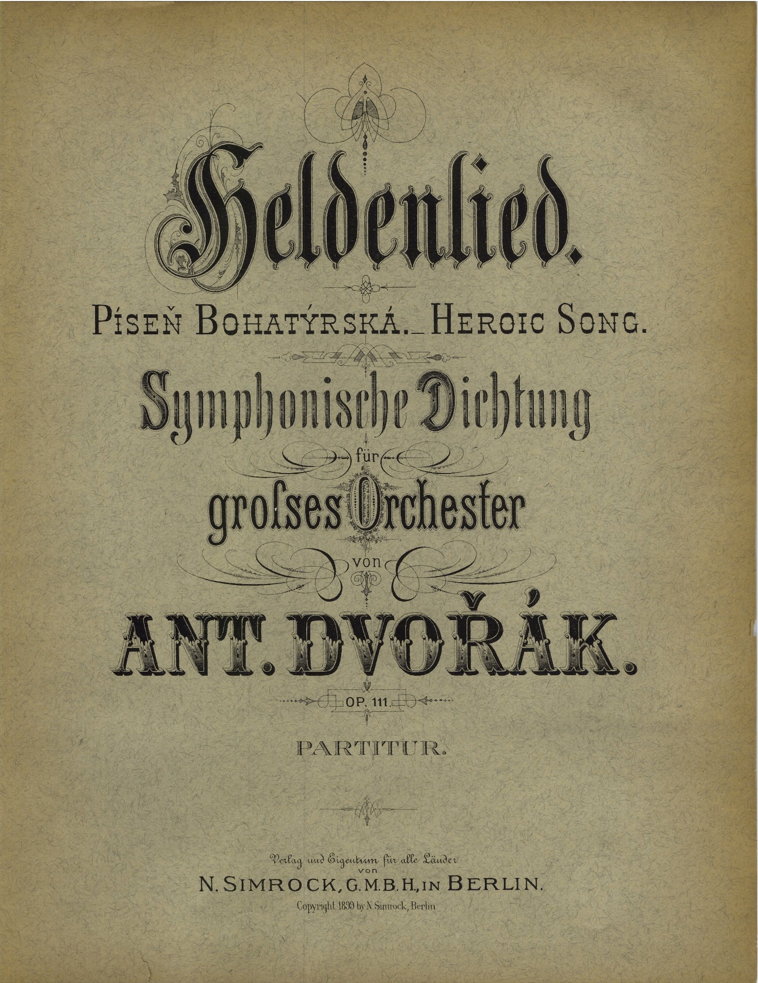 Cover page for the first edition of Antonin Dvorak's symphonic poem A Hero's Song, composed in 1897.